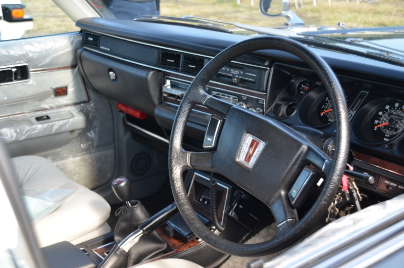 Nissan Cedric 2000 SGL-E Extra